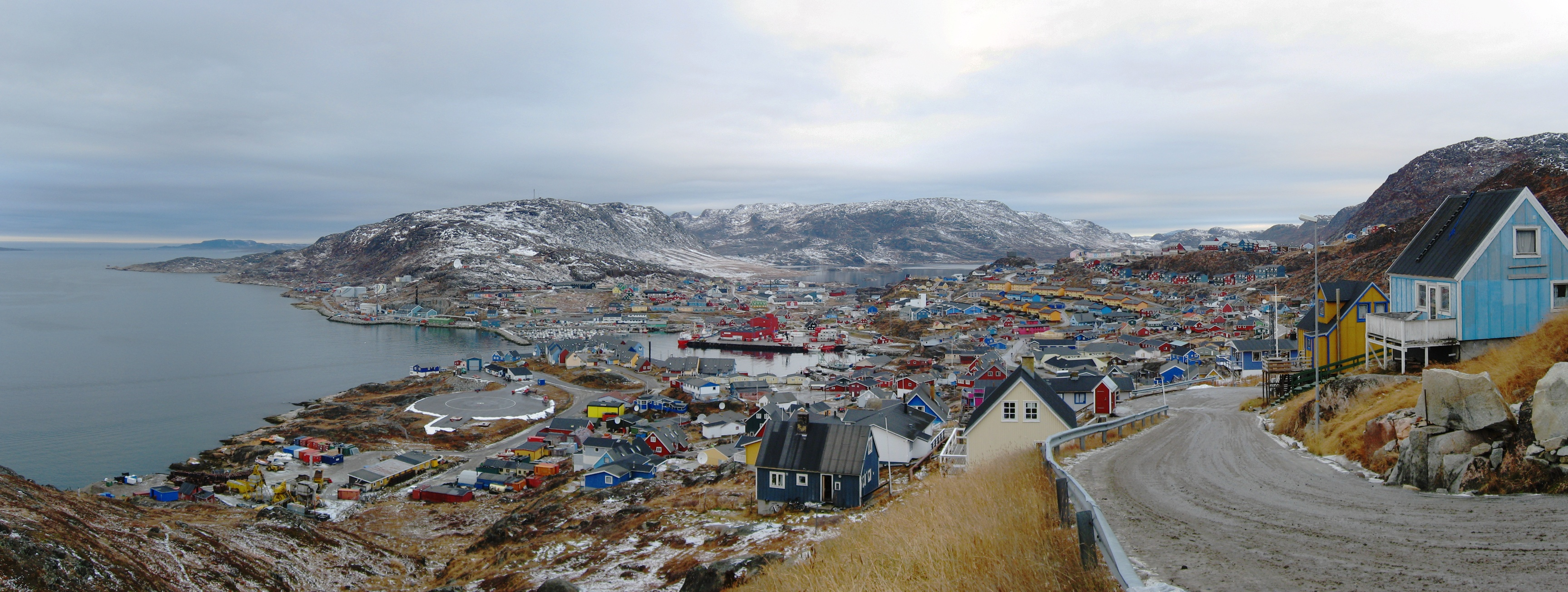 Qaqortoq, Greenland. Stitch of three photos taken with a Canon DIGITAL IXUS 800 IS compact camera.